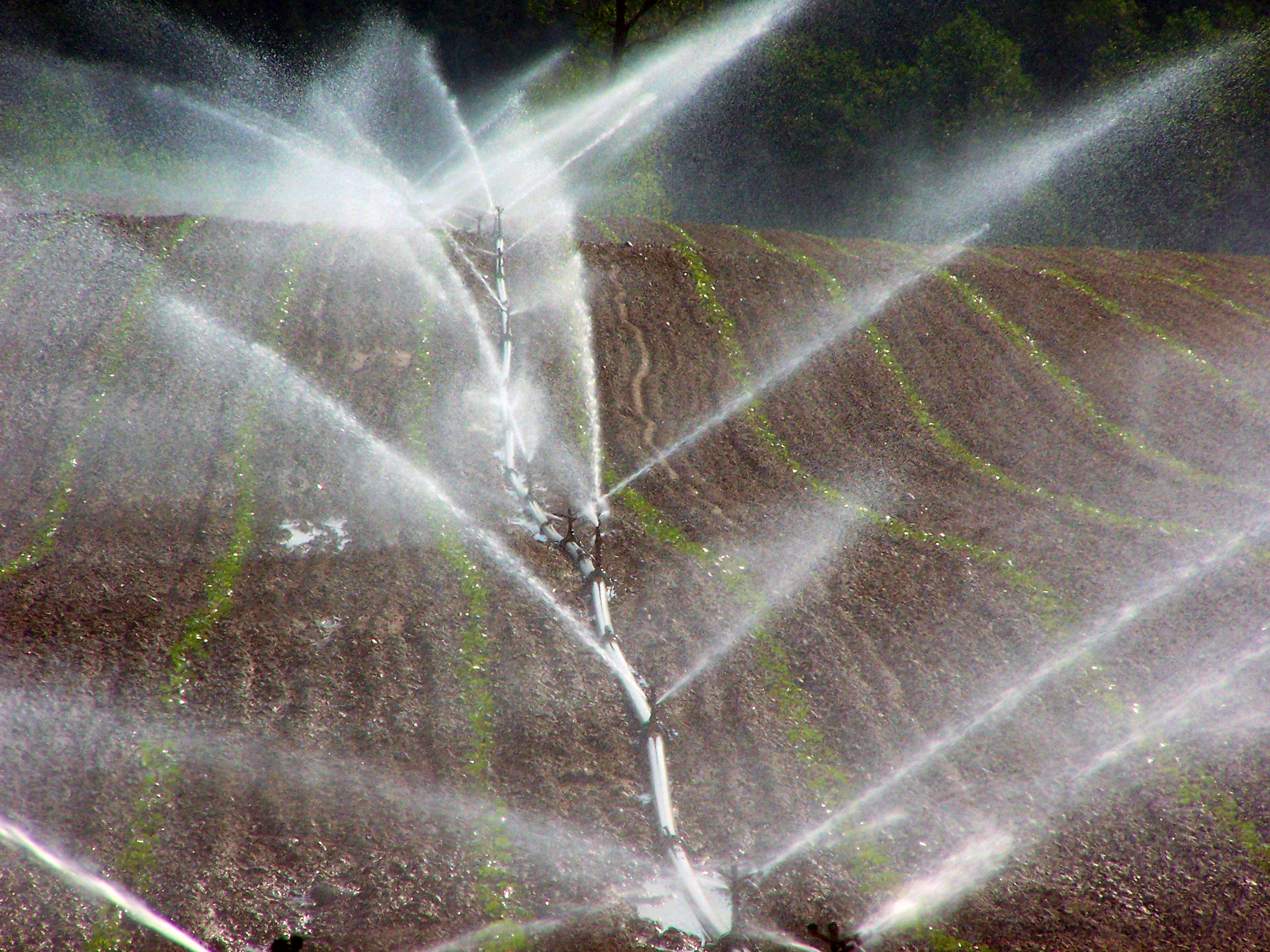 Deszczowanie